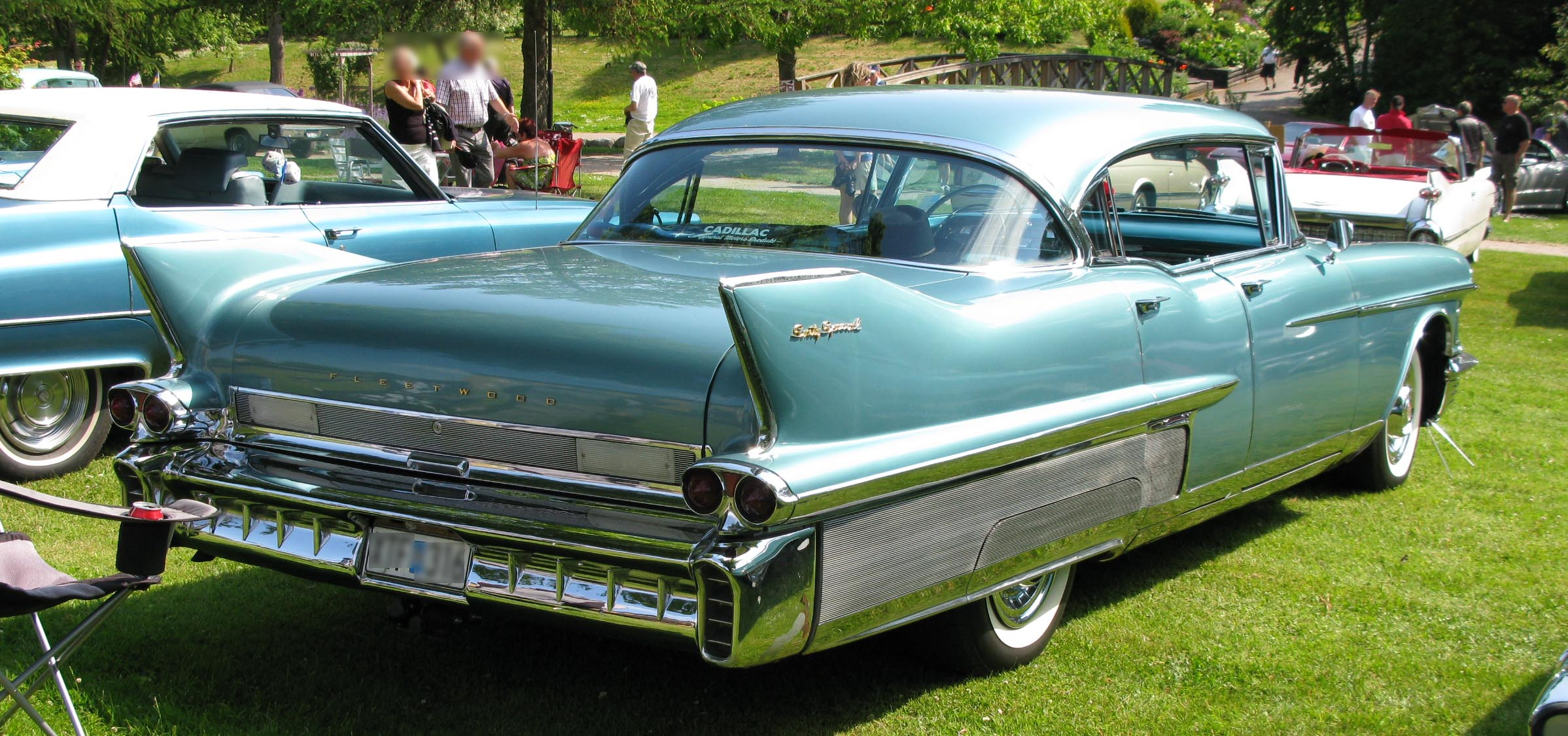 1958 Cadillac 6039 Fleetwood Sixty Special